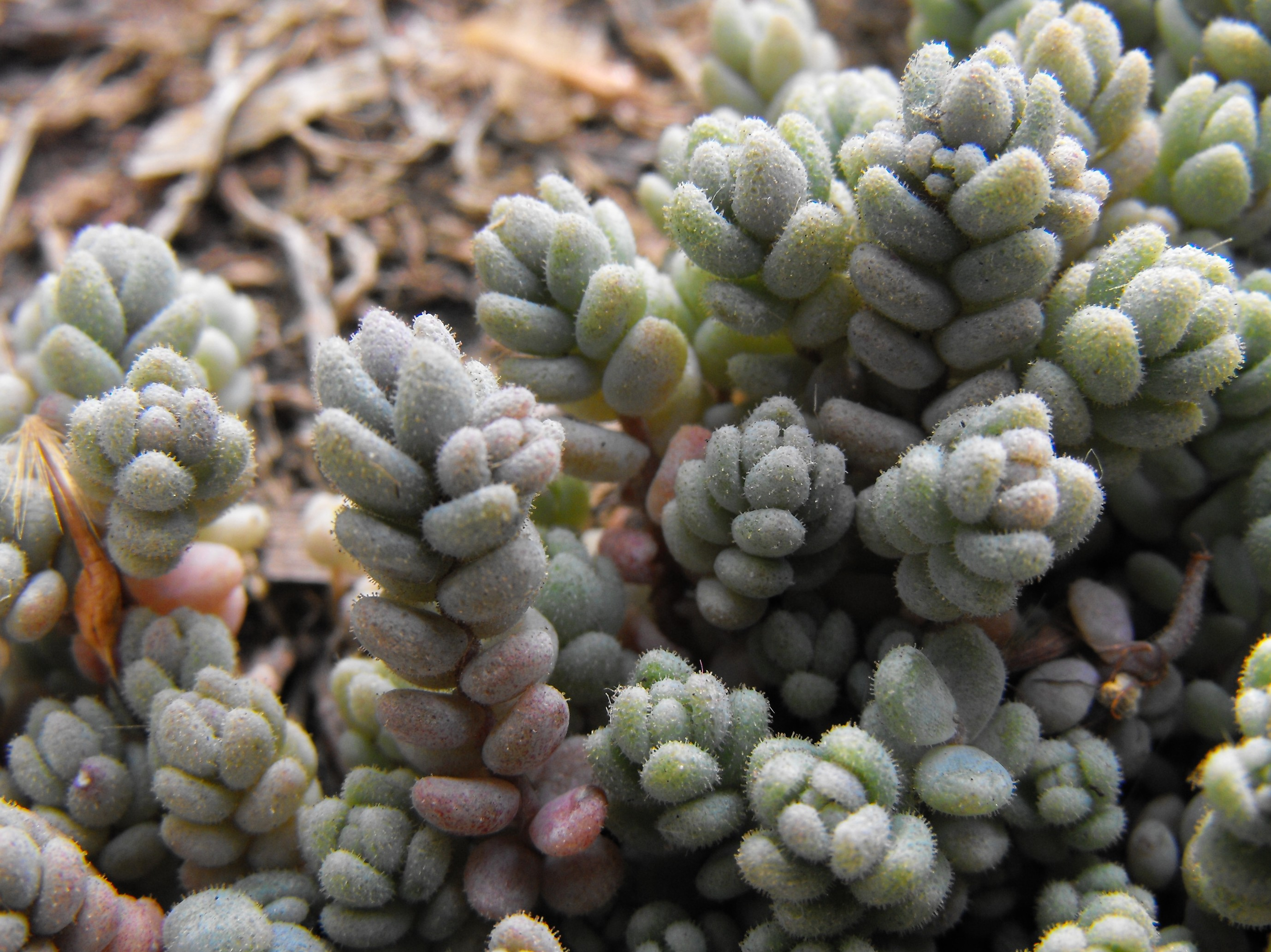 Sedum dasyphyllum at the Huntington Library & Botanical Gardens in San Marino, California, USA. Identified by sign.